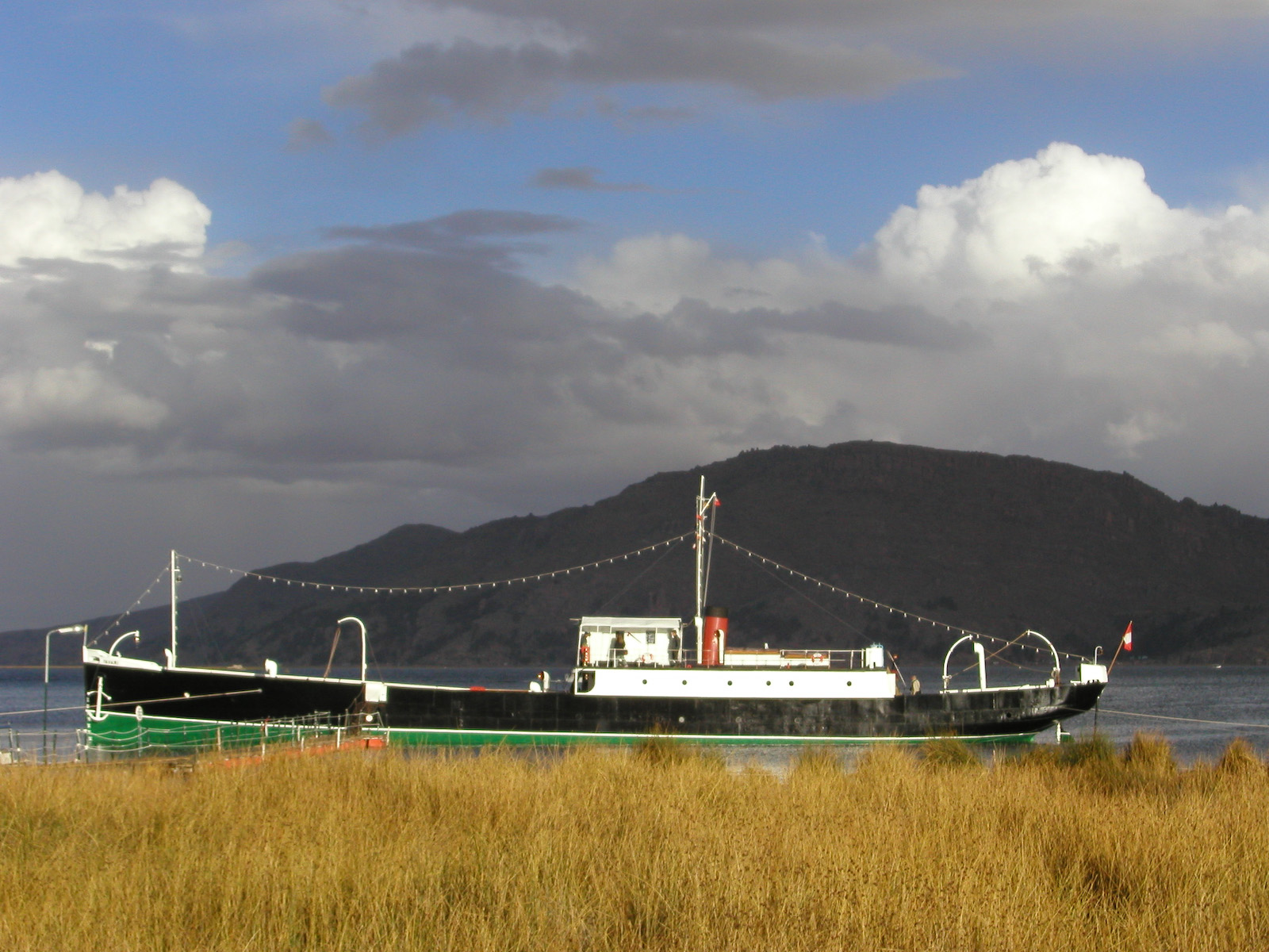 The iron-hulled ship Yavari, bulit in London in 1862, at Puno on Lake Titicaca, Peru in 2003